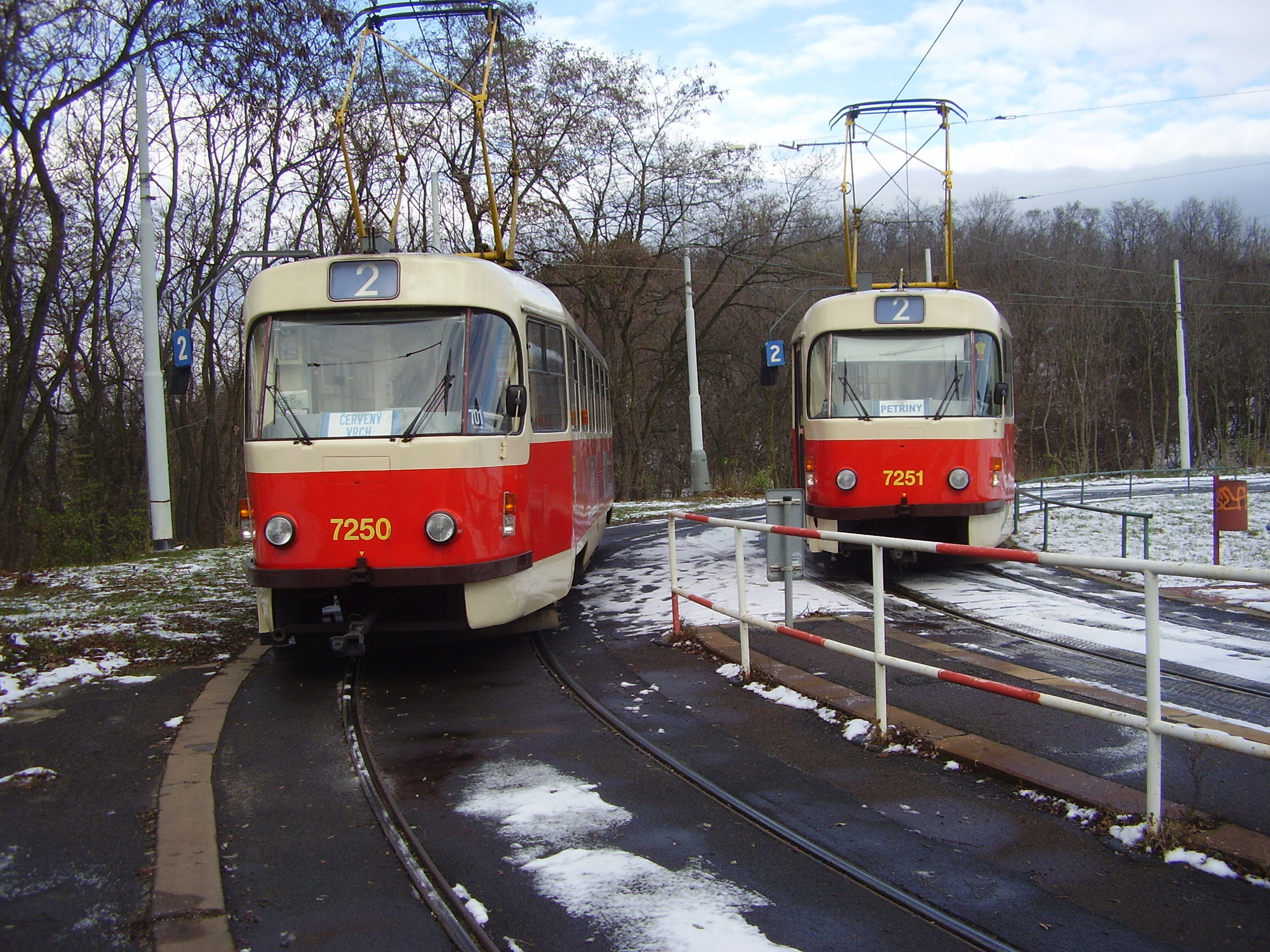 Two T3 trams on tram loop Červený vrch, Prague 6.